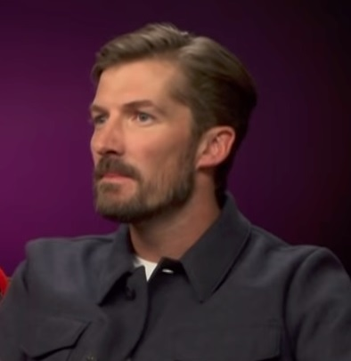 The stars of Queen biopic BOHEMIAN RHAPSODY Rami Malek, Joseph Mazzello, Gwilym Lee, and Lucy Boynton play a REGAL and FABULOUS game of Who Said It: QUEEN or THE QUEEN! Can they work out who said each quote? Plus, the cast give us all the deets on the incredible extended, 20 minutes long LIVE AID scene you WON’T see in cinemas. Subscribe to MTV for more great videos and exclusives!